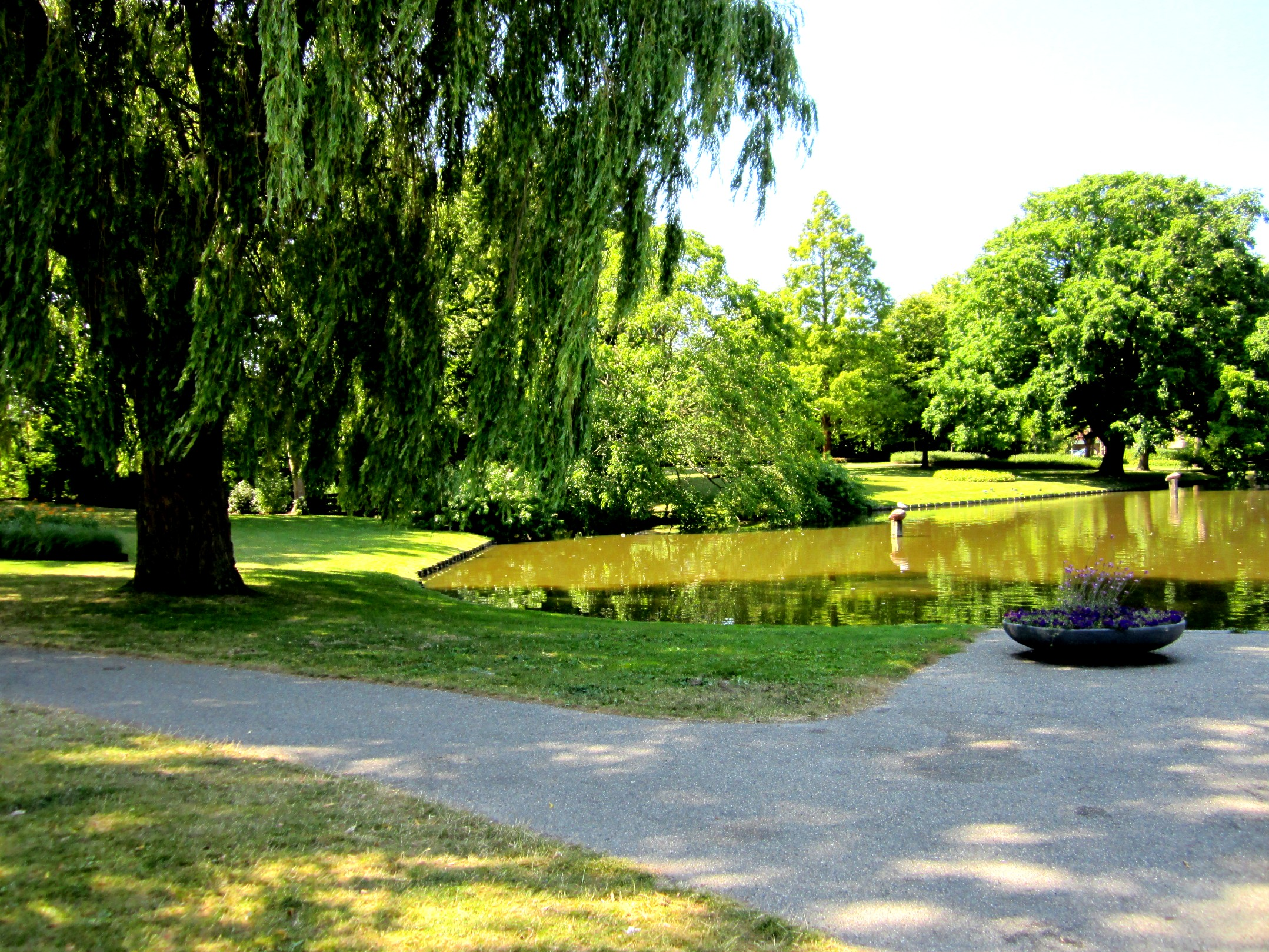 Stadspark (City Park), Franeker/Frjentsjer, Friesland, the Netherlands.